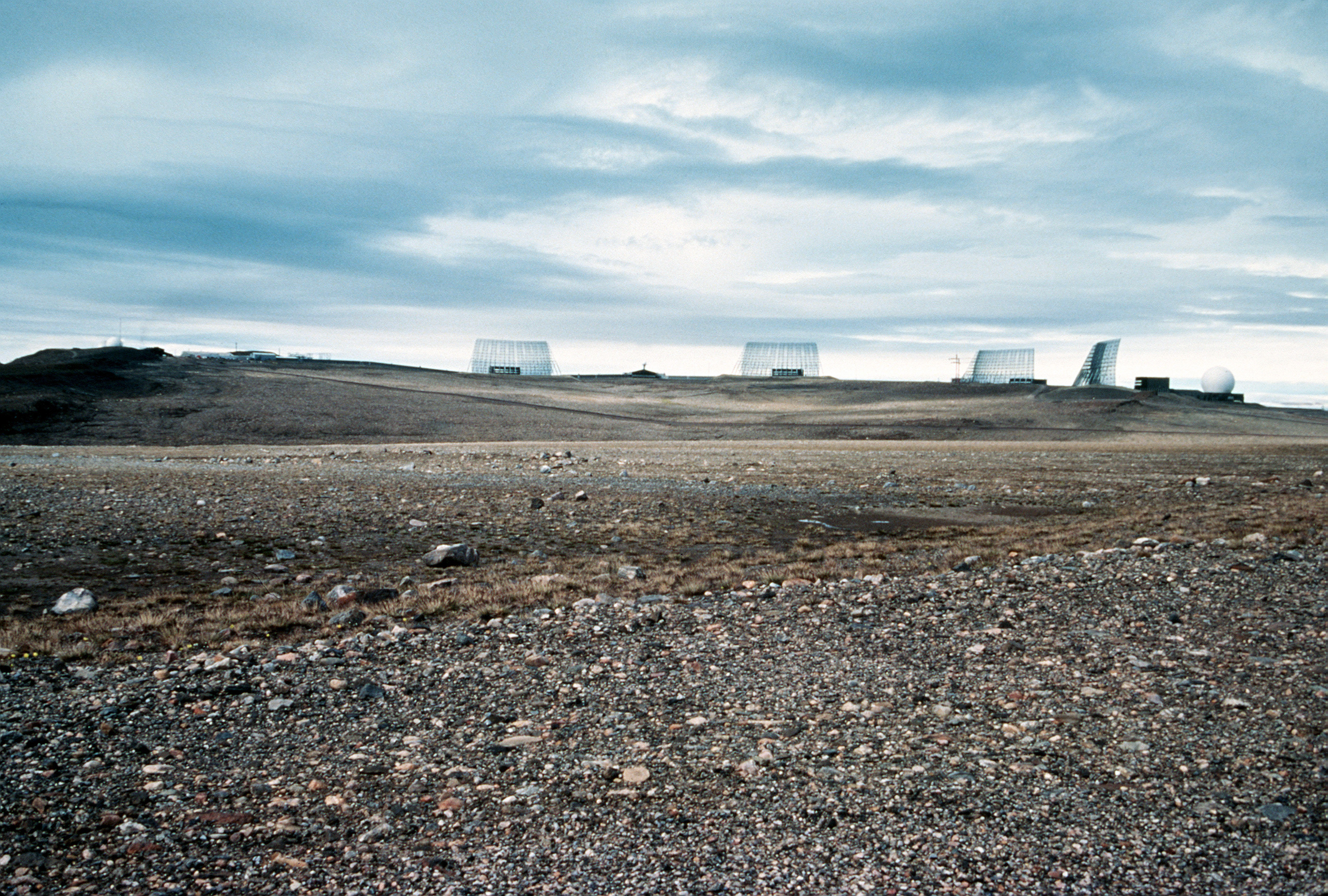 A view of four AN/FPS-50 EARLY WARNING radar antennas located at the BALLISTIC MISSILE EARLY WARNING SYSTEM site. An antenna dome is visible to the far right.